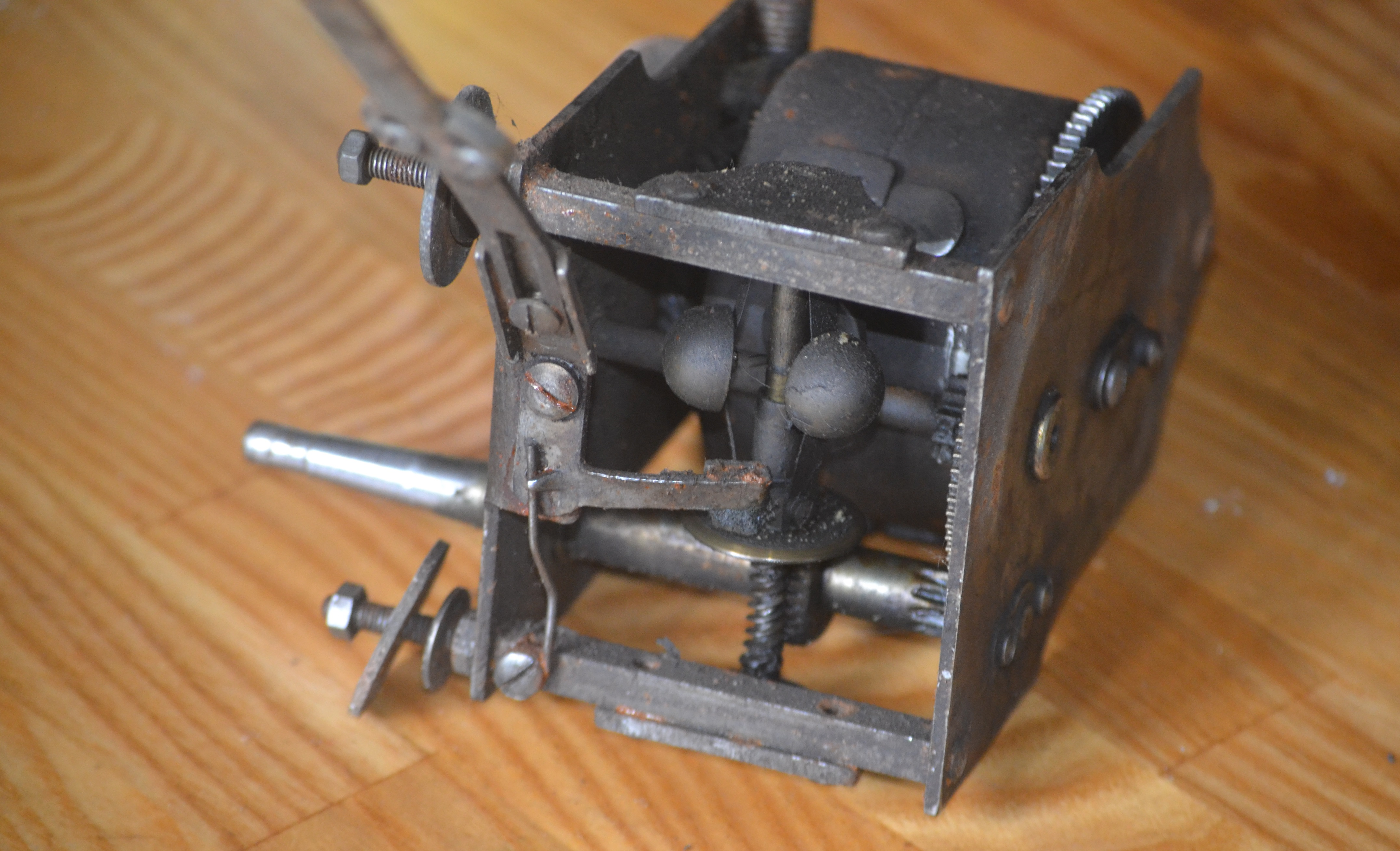 grammophone drive